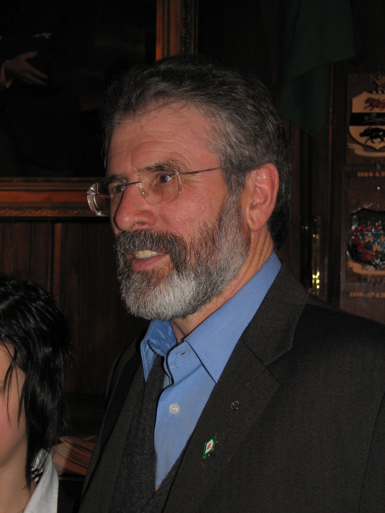 Gerry Adams wearing the Easter Lily badge. The Easter Lily is a badge worn at Easter by Irish republicans as symbol of remembrance for Irish combatants who died during or were executed after the 1916 Easter Rising.